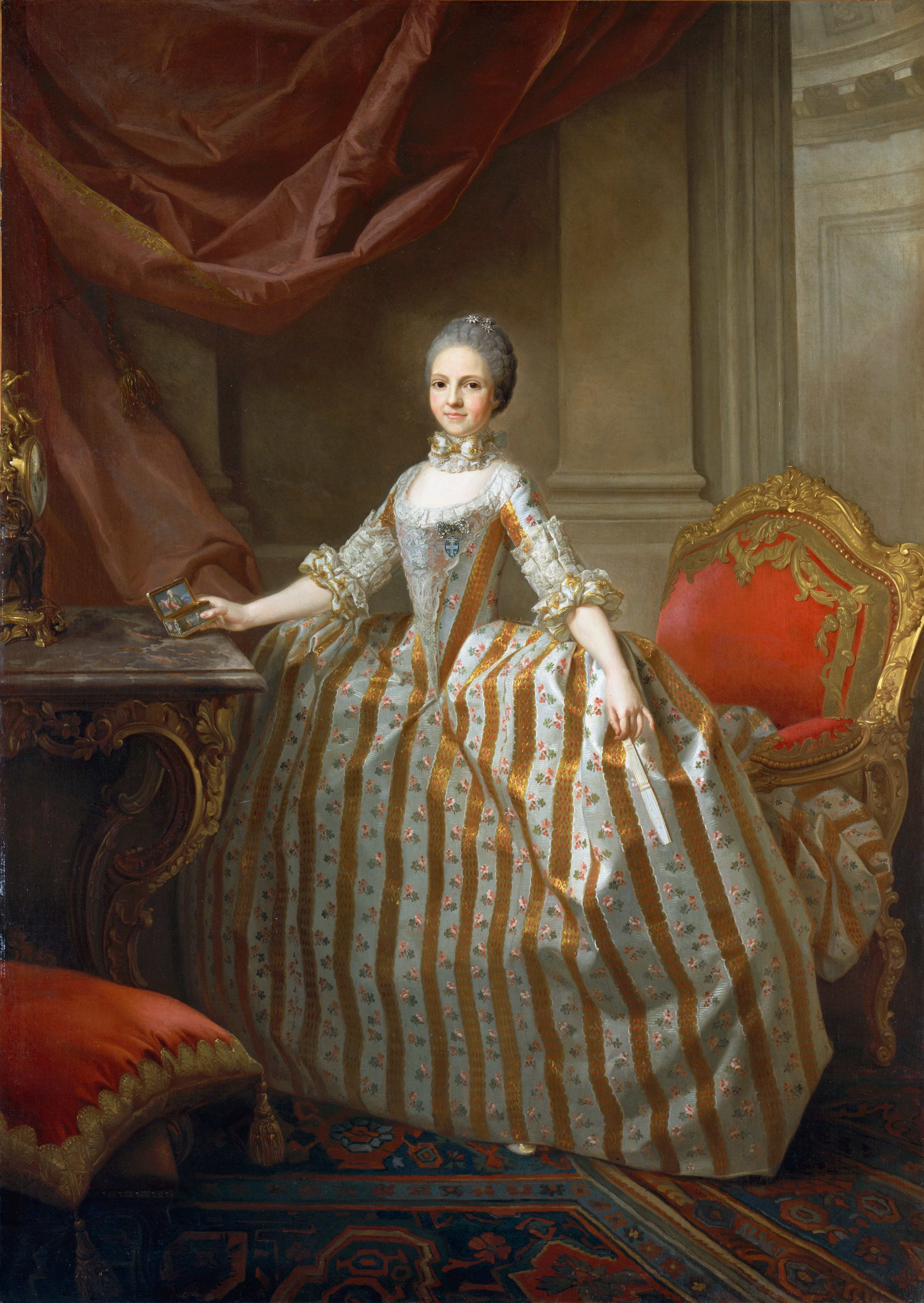 The furniture in this affluent interior has often been identified as that ordered in Paris by her mother, Madame Louise Élisabeth de France (1727–1759), Duchess of parma, for the Palazzo Ducale in Parma.